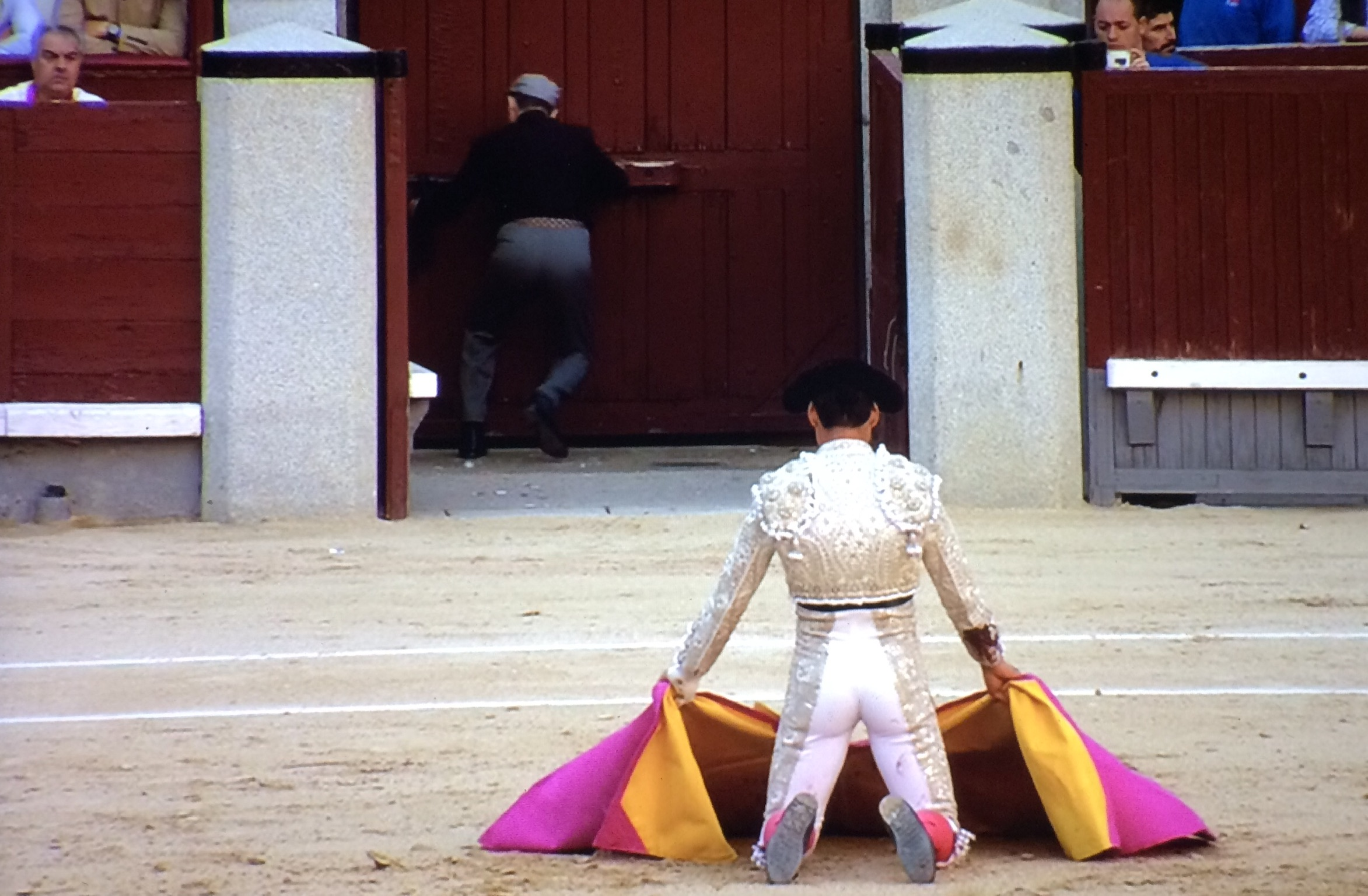 Gayola or gaiola is as it was formerly called the toril where the bulls were waiting to be fought. It means cage or jail. Luck at gayola door or portagaiola is what is called reception by the bullfighter kneeling before the door through which the bull accesses the ring. It is at high risk because the bull is momentarily blinded by the contrast of light between the pigsty and the plaza.